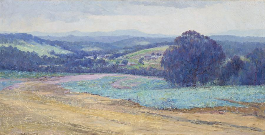 The Road to Warrandyte, painting, oil on canvas on board, 49.5 x 96.0 cm, by Clara Southern